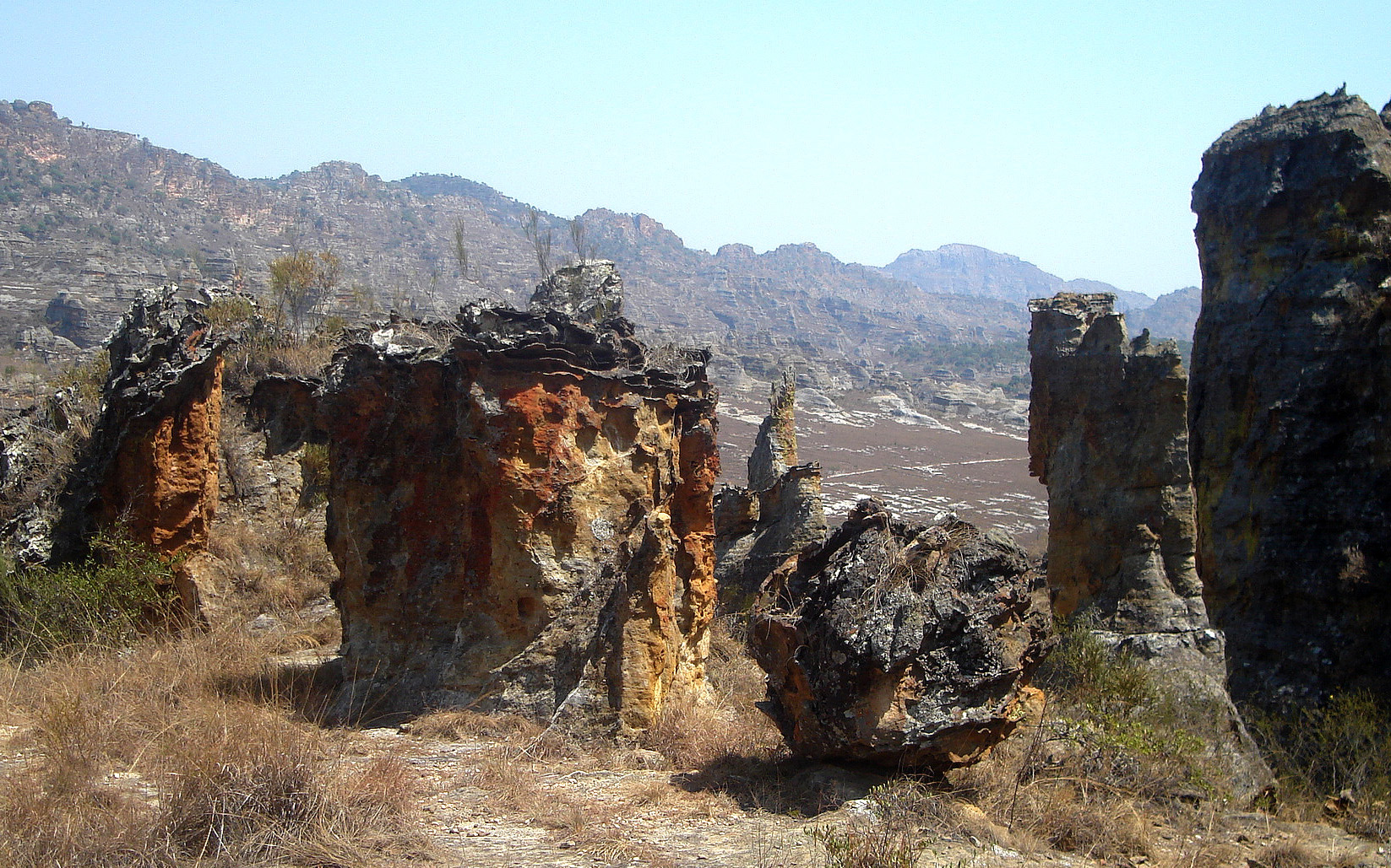 Rock 'chimneys' in Isalo N/P